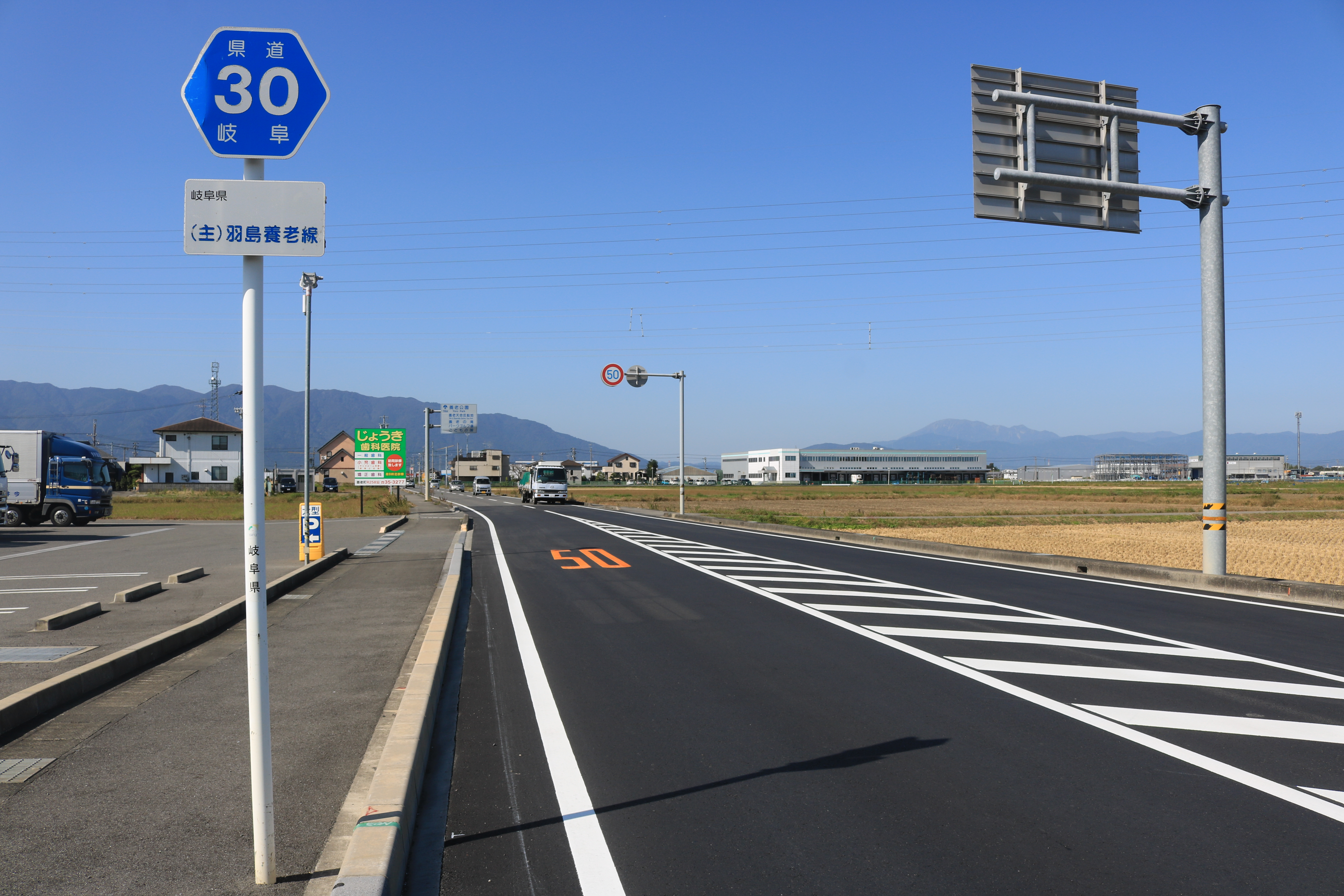 Gifu Prefectural Road Route 30 in Nakago, Wanouchi, Gifu Prefecture, Japan.